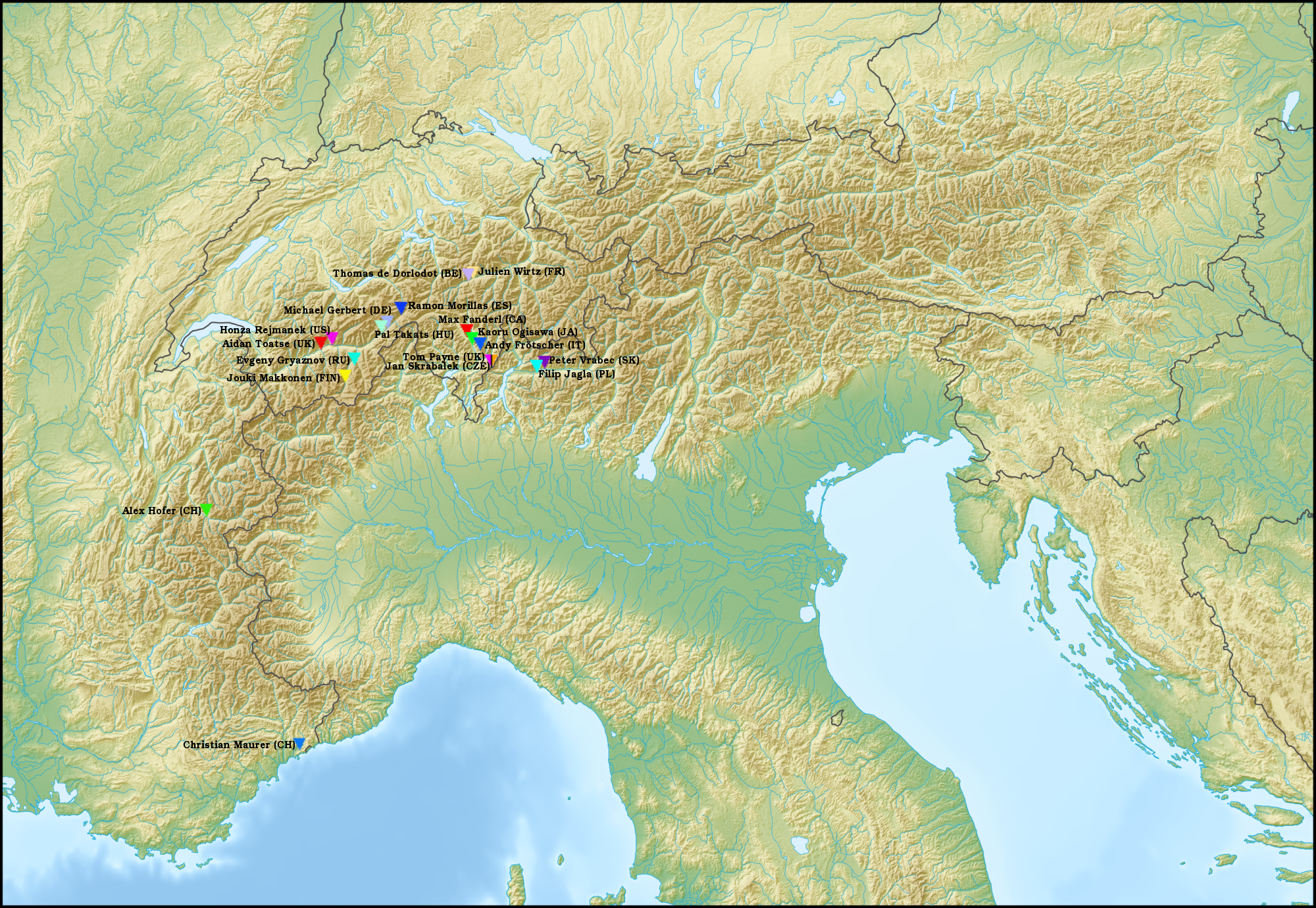 Location map of the Alps with positions of all Red Bull X-alps 2009 contestants on July the 28th when the winner (Christian Maurer) reached Mont Gros.